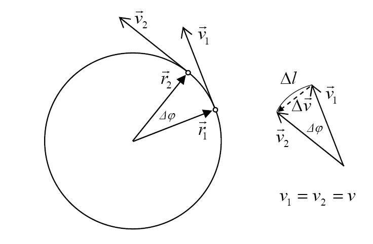 Derivation of centripetal acceleration in uniform circular motion